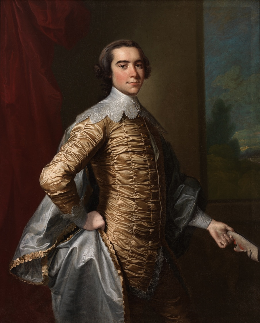 Robert Carter III of Nomini Hall, 1753 Thomas Hudson (1701–1779) Oil on canvas Gift of Louise Anderson Patten, 1972.17